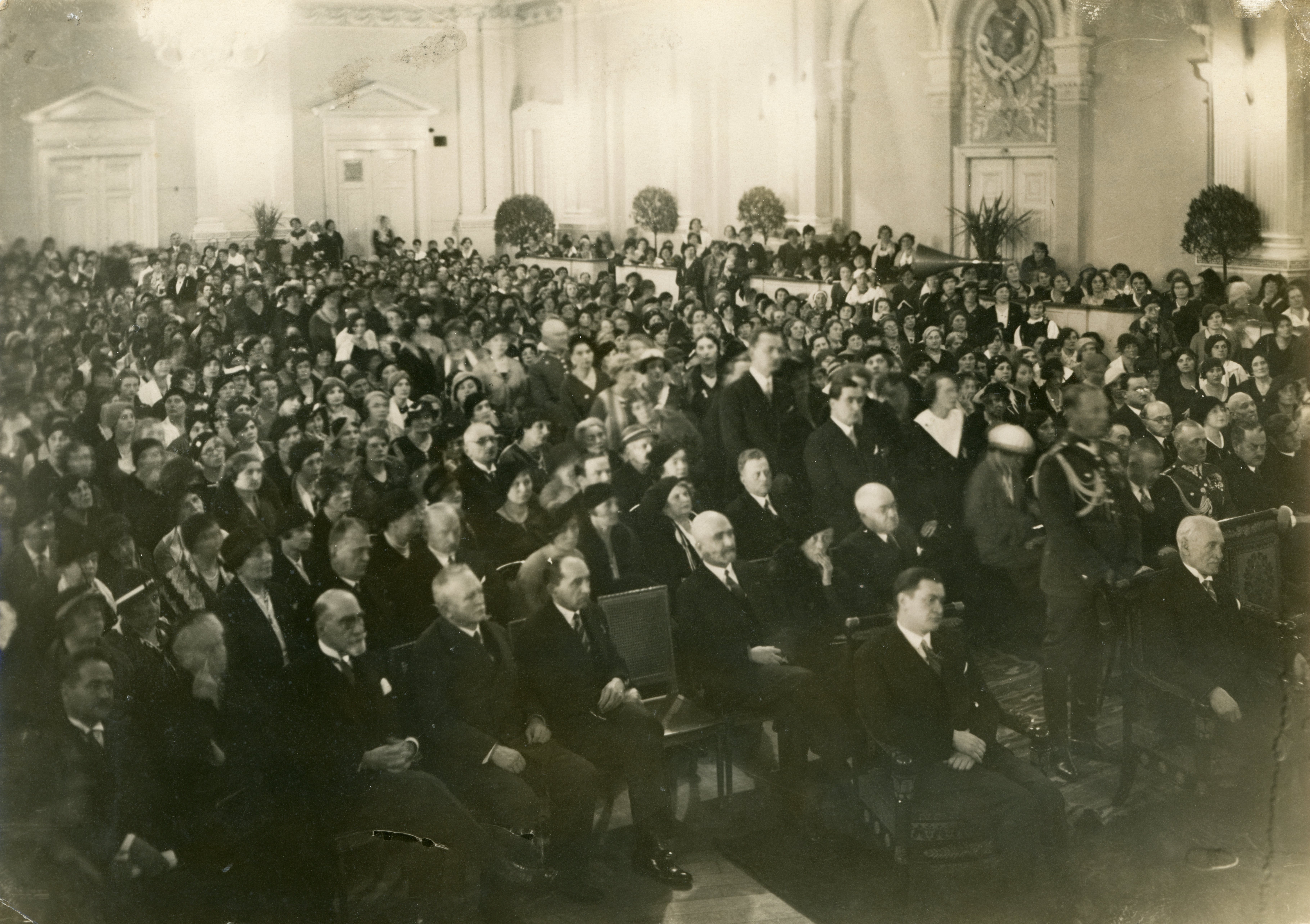 A plenary of "Związek Pracy Obywatelskiej Kobiet", a Polish women's organisation, in Warsaw, 1933. Sittin on the far right President of the Republic, Ignacy Mościcki